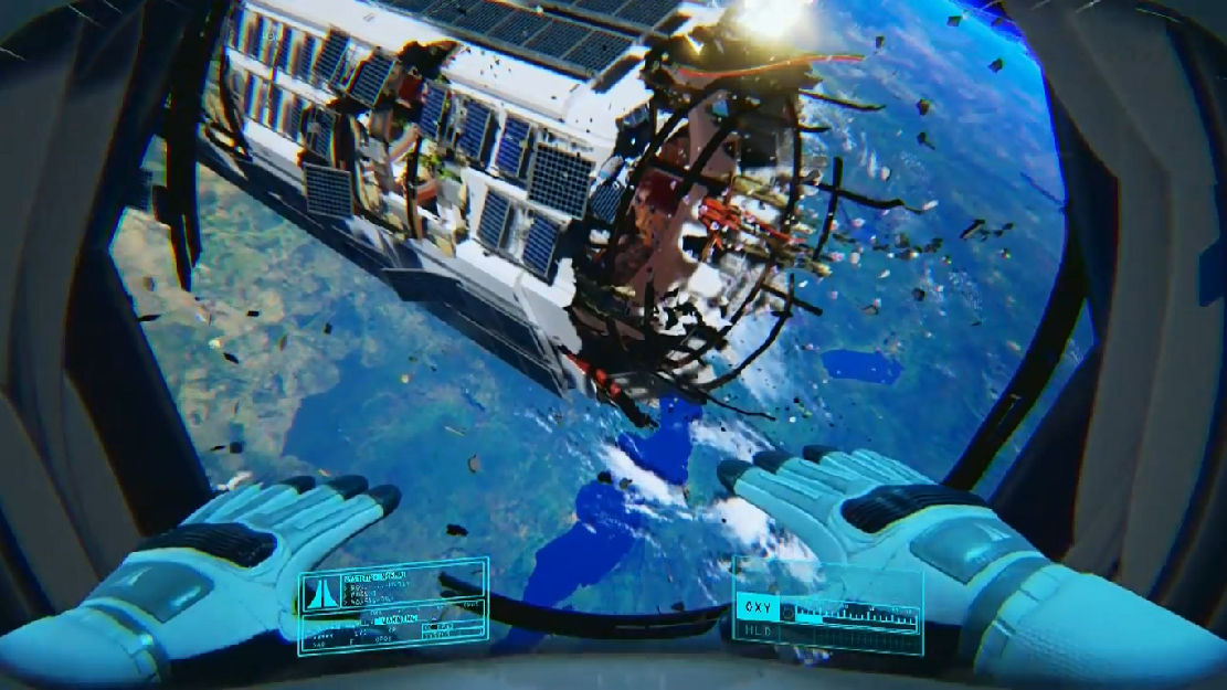 Gameplay screenshot of the video game ADR1FT. Player character floats through the damaged space station.